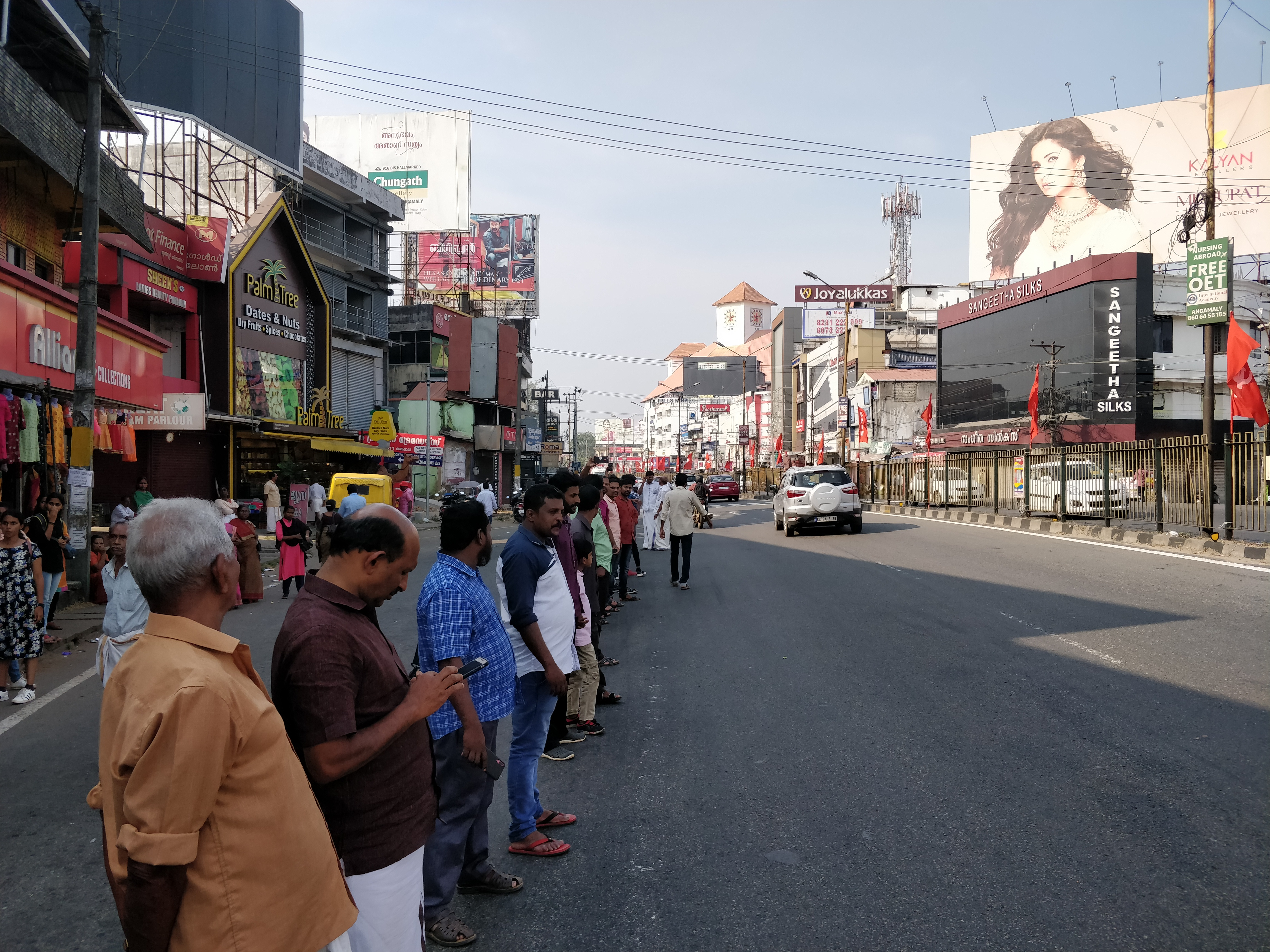 Manushya maha Srinkala conducted againts CAA at kerala, January 2020